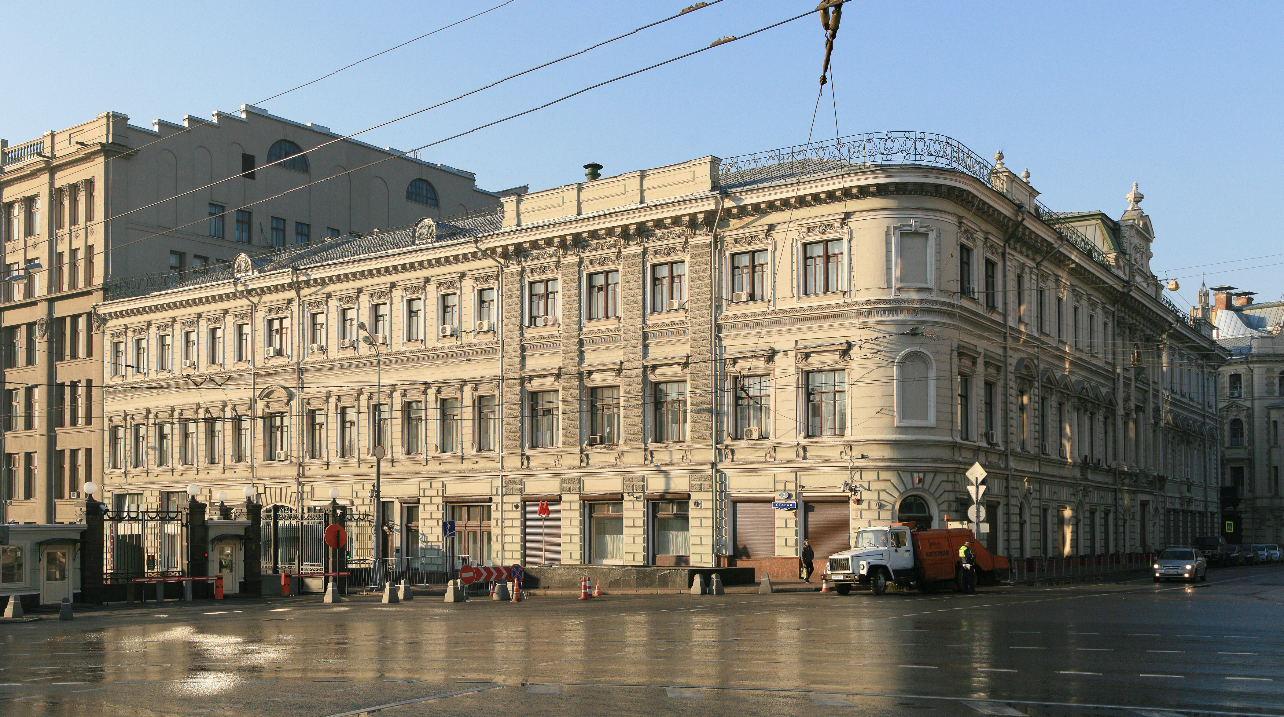 Staraya Square 2/14, Moscow